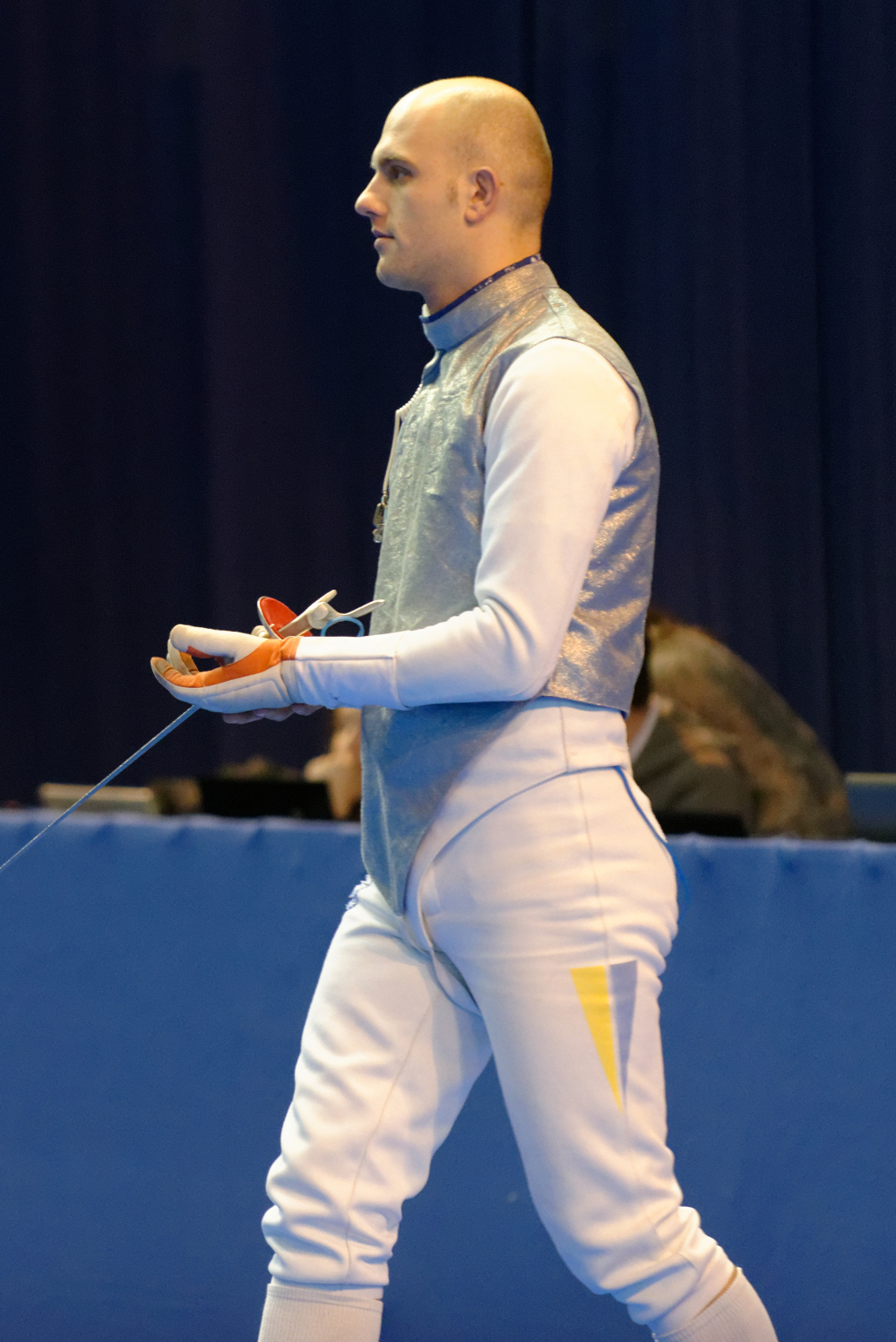 Andrii Pogrebniak during his 1/16 final at the Challenge international de Paris 2013 against Erwann Le Péchoux.